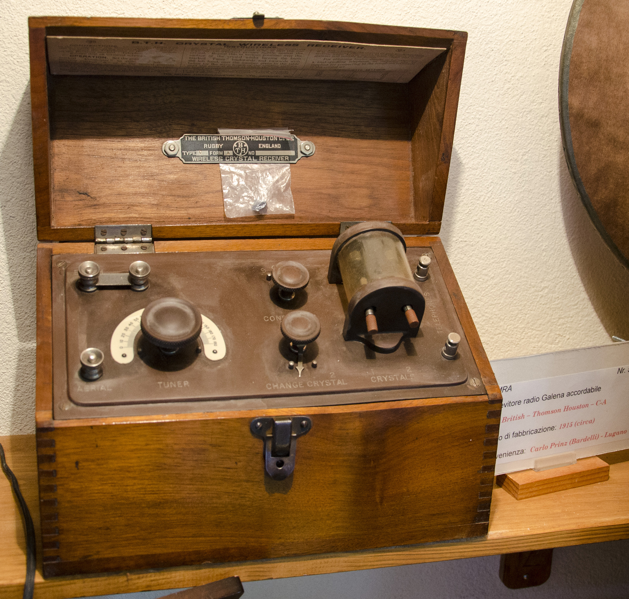 Crystal radio (1915) of the Museo della radio - Monteceneri (Switzerland)